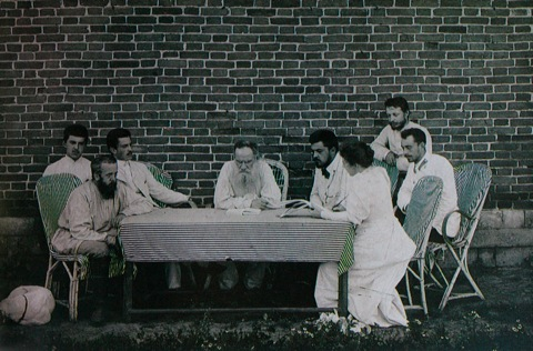 Leo Tolstoy examines a list of peasants to receive aid with his daughter Tatiana and a group of Tolstoyans.